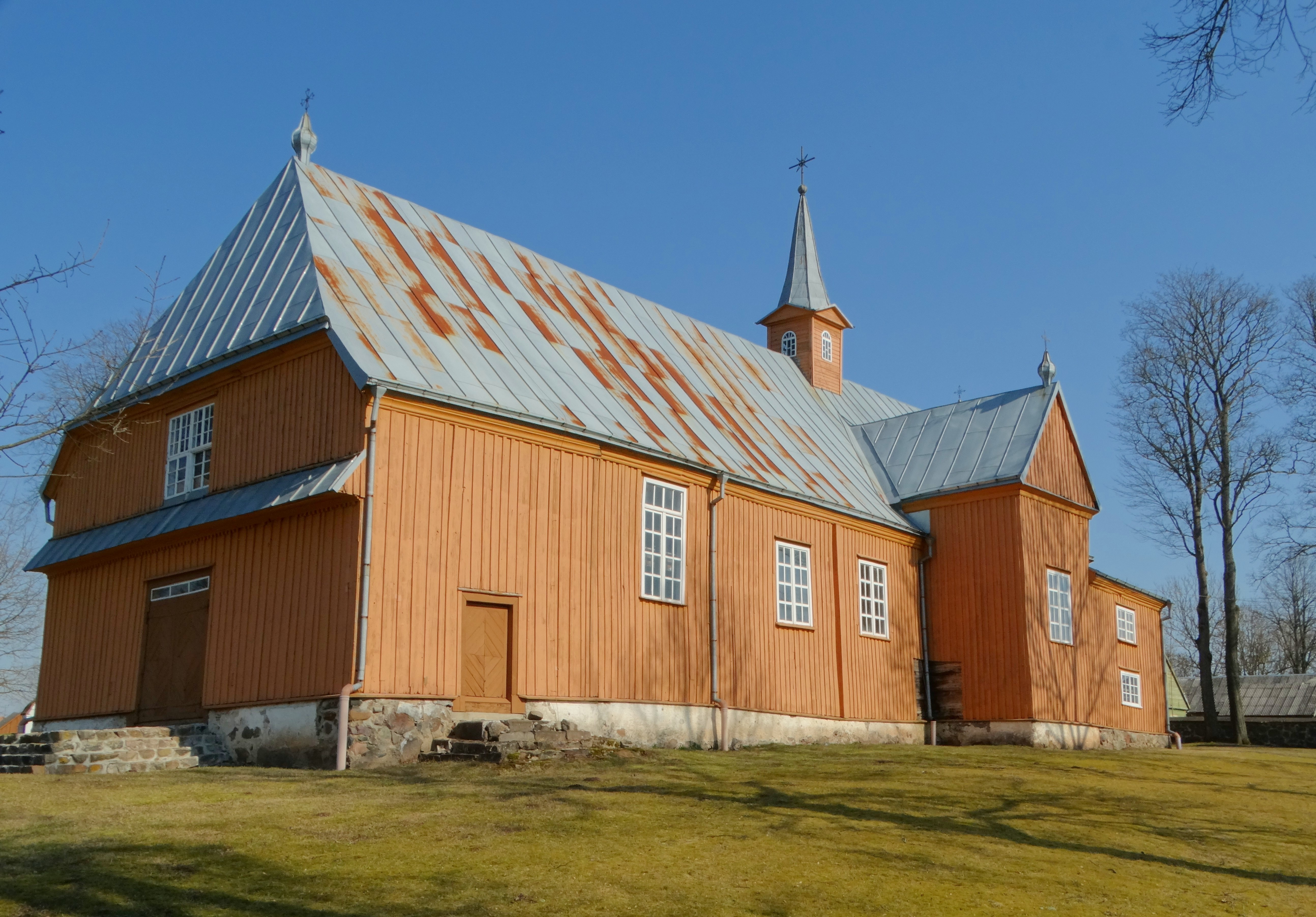 Holy Trinity Church, Tryškiai, Telšiai district, Lithuania